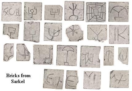 The grand fortress of Sarkel, located near the Don River, was built in the 830s by a joint team of Greek and Khazar architects. Its Turkic name, sar-kel, means "White Fortress", and was named this because the fortress' bricks were made of white limestone. Some of the bricks from the Sarkel site were decorated with Turkic tamgas (tribe symbols) or images of horses and armored riders.